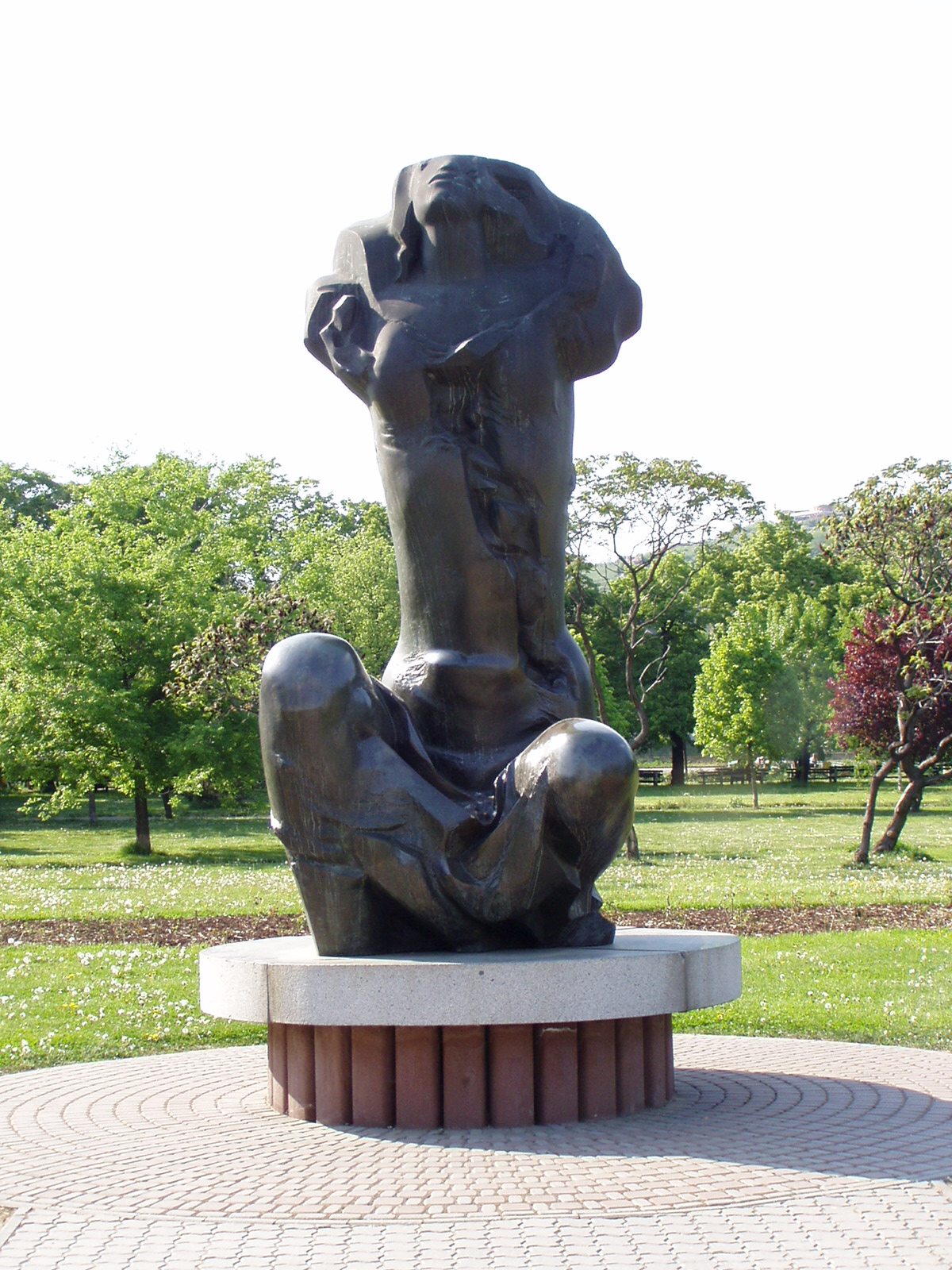 Monument to the Victims of atom bomb, Hiroshima (Tibor Bártfay). Its depicting a burned kneeling female body. The concrete base height is circa 70cm. The statue itself is alloyed iron, approx. 340-350 cm tall- Statue standing in the park attached to Račianske mýto, Bratislava, Slovak Republic